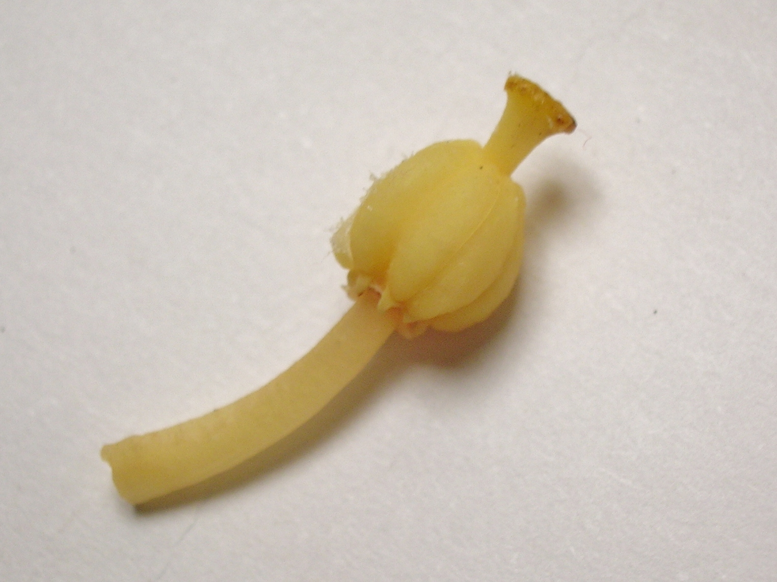 Carpel of Yellow bird's nest or Dutchman's pipe